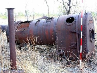 Content Mine - remains of C2 cylinder portable steam engine